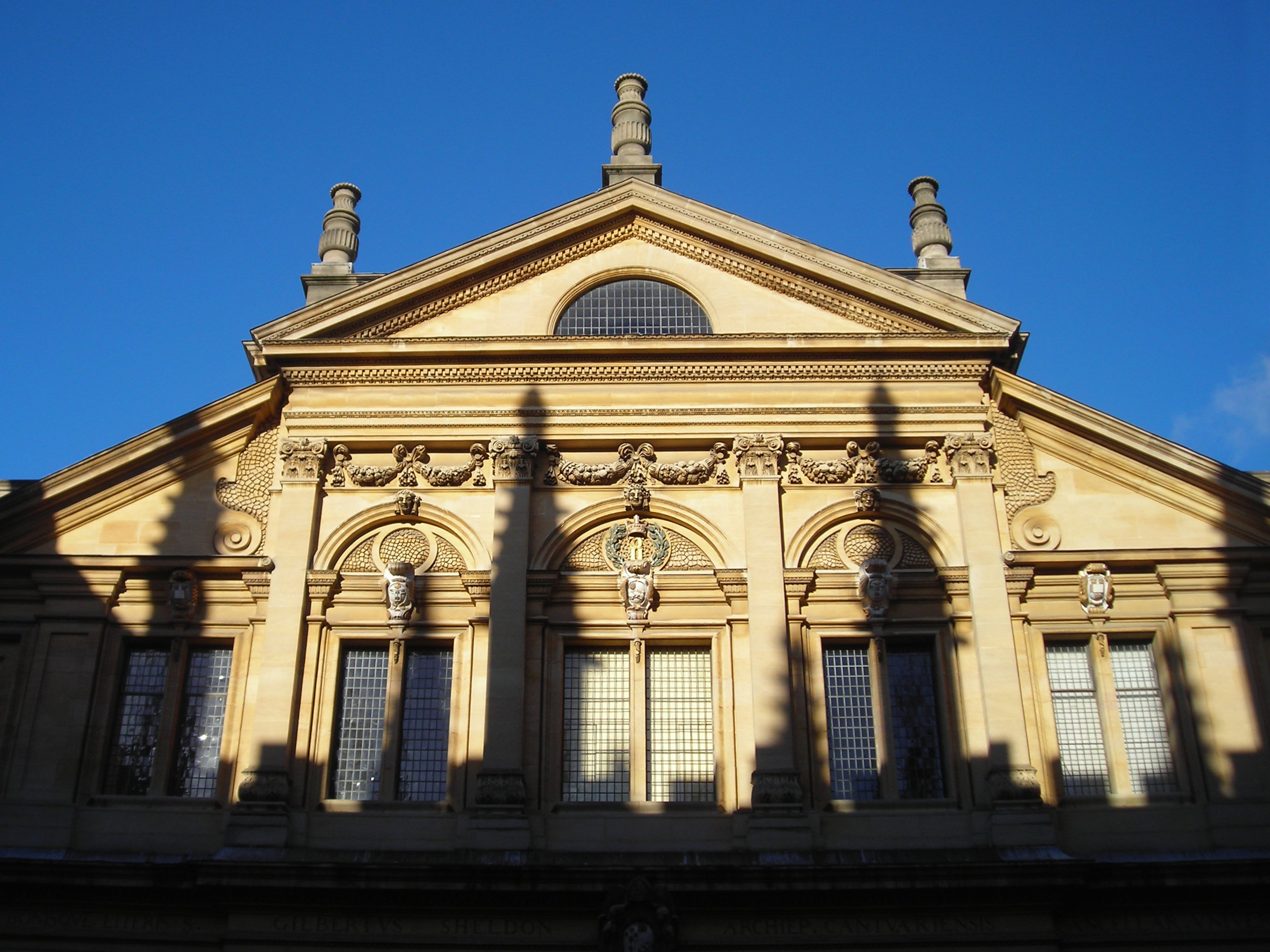 Sheldonian Theatre, Oxford: the upper portion of its façade, shadowed by the spires of the Bodleian Library.